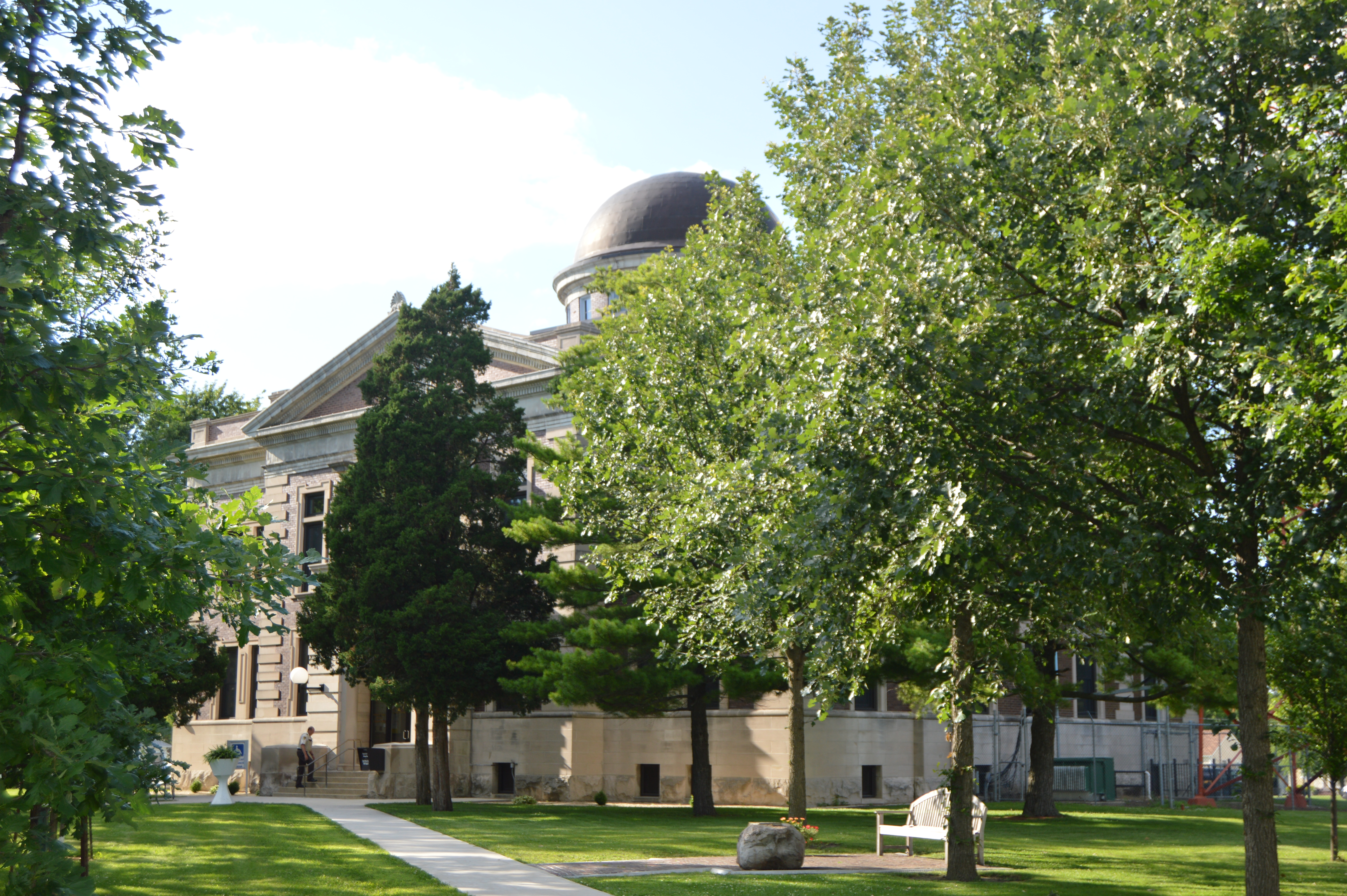 Front and eastern side of the Ford County Courthouse, located at 200 W. State Street in Paxton, Illinois, United States. It was built in 1908.